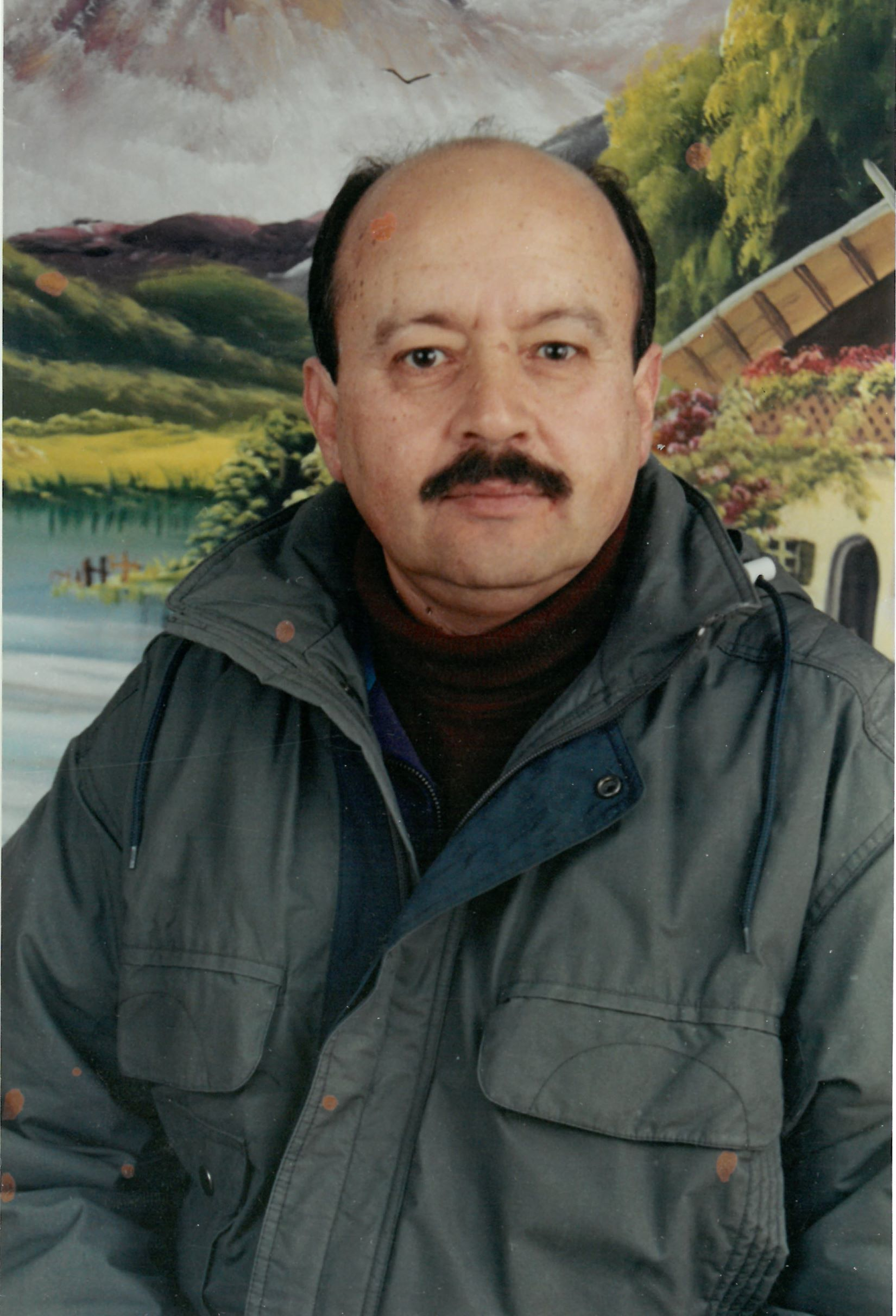 Photo taken in North Africa in 1988